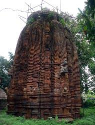 Structure of Amunha Deula or Lokanatha Siva Temple in Bhubaneswar